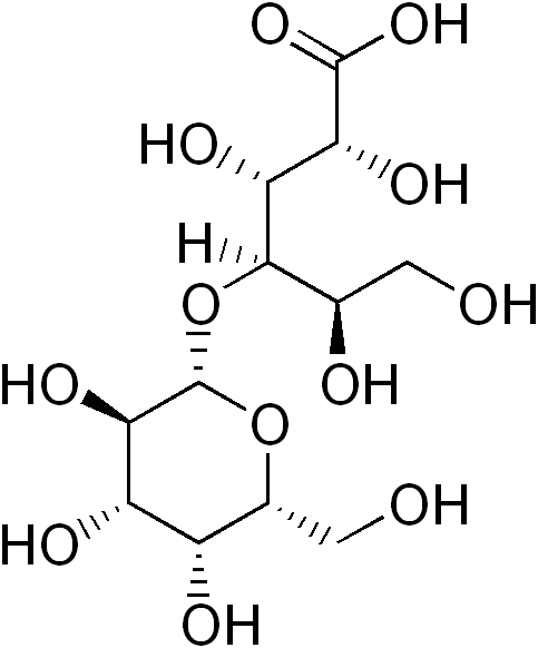 chemical structure of lactobionic acid